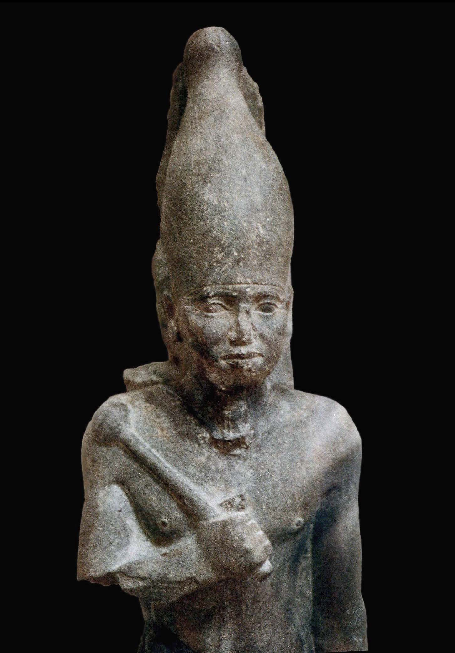 Slate statue of Neferkhau Neferefre wearing the white crown of Upper Egypt. Originally from the pyramid complex and funerary temple of Neferefre at Abusir, now in the Egyptian Museum, Cairo. Dimensions: Height 49.3 cm, length 14.8 cm, thickness 18 cm. Verner, Miroslav. (1985) “Les Sculptures de Rêneferef d´couvertes à Abousir”. BIFAO 85